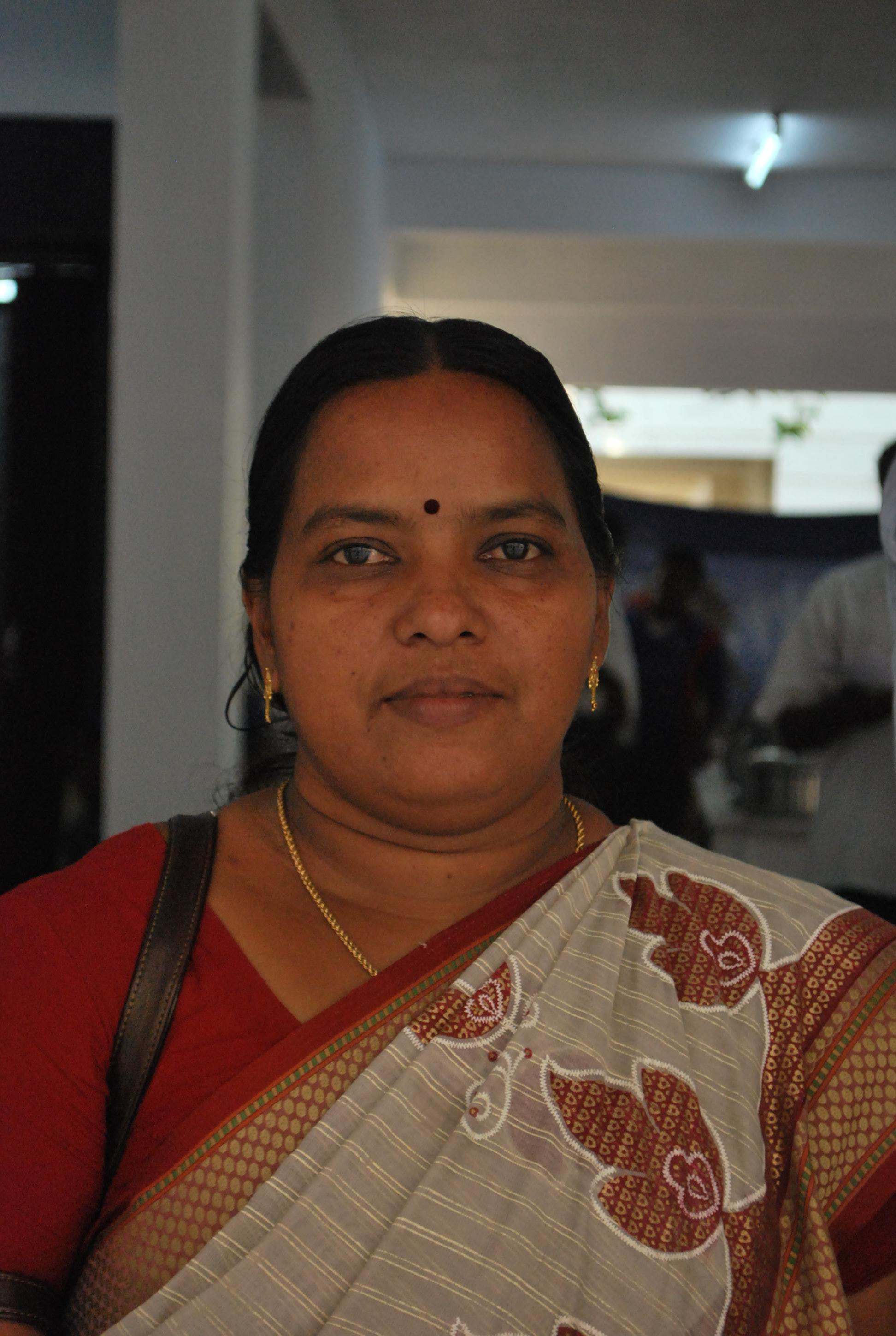 Politician